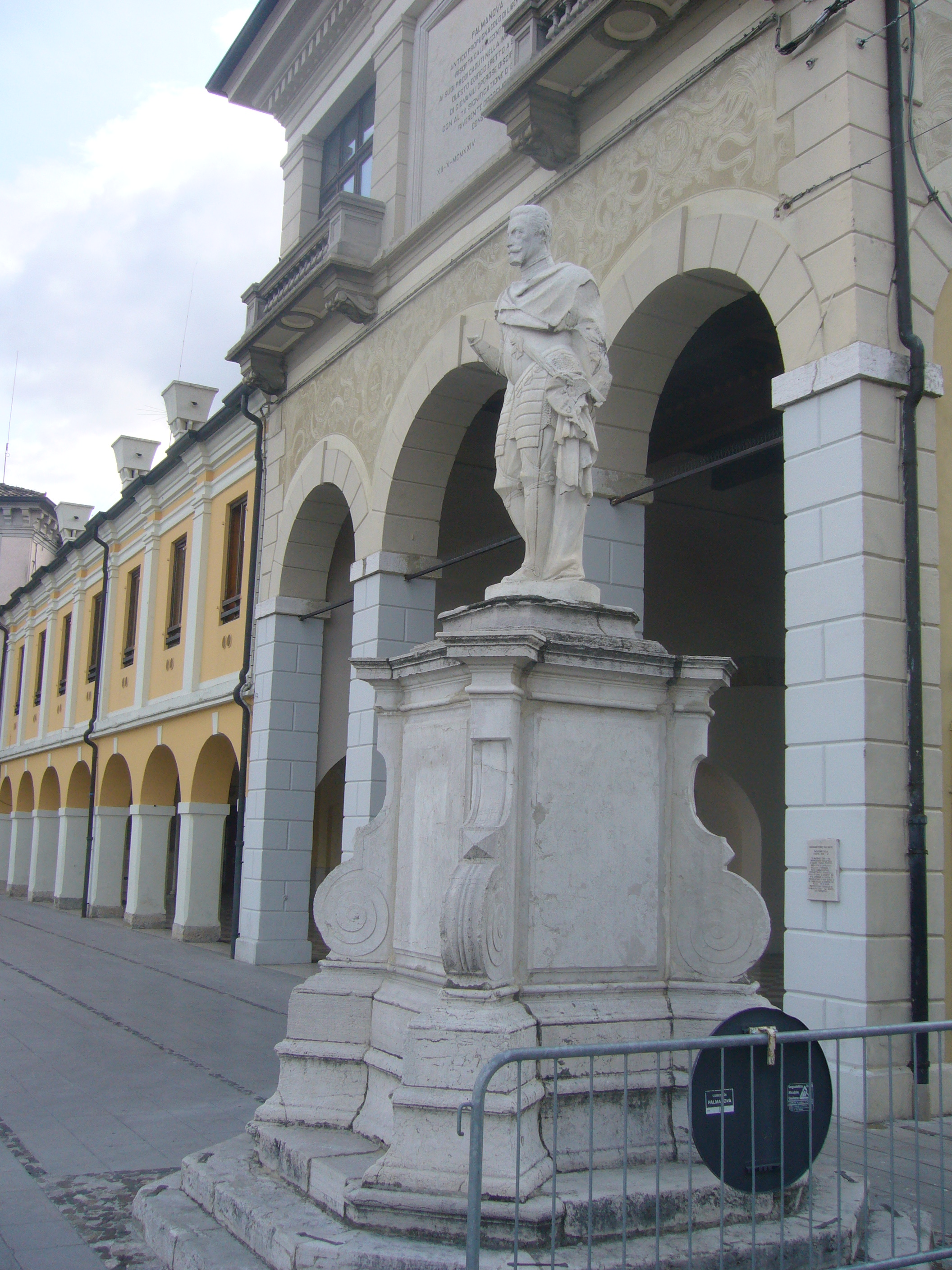 Palmanova: one of the statues on the main square, representing Marcantonio Barbaro (1628)